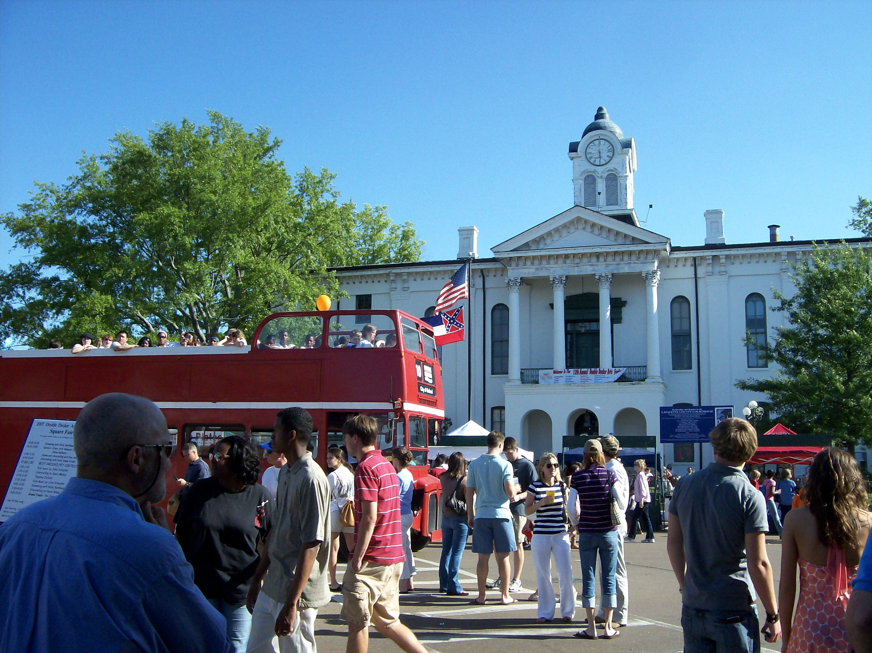 A double-decker bus passes the north side of the Lafayette County Courthouse in Oxford, Mississippi, during the 2007 Double Decker Festival.